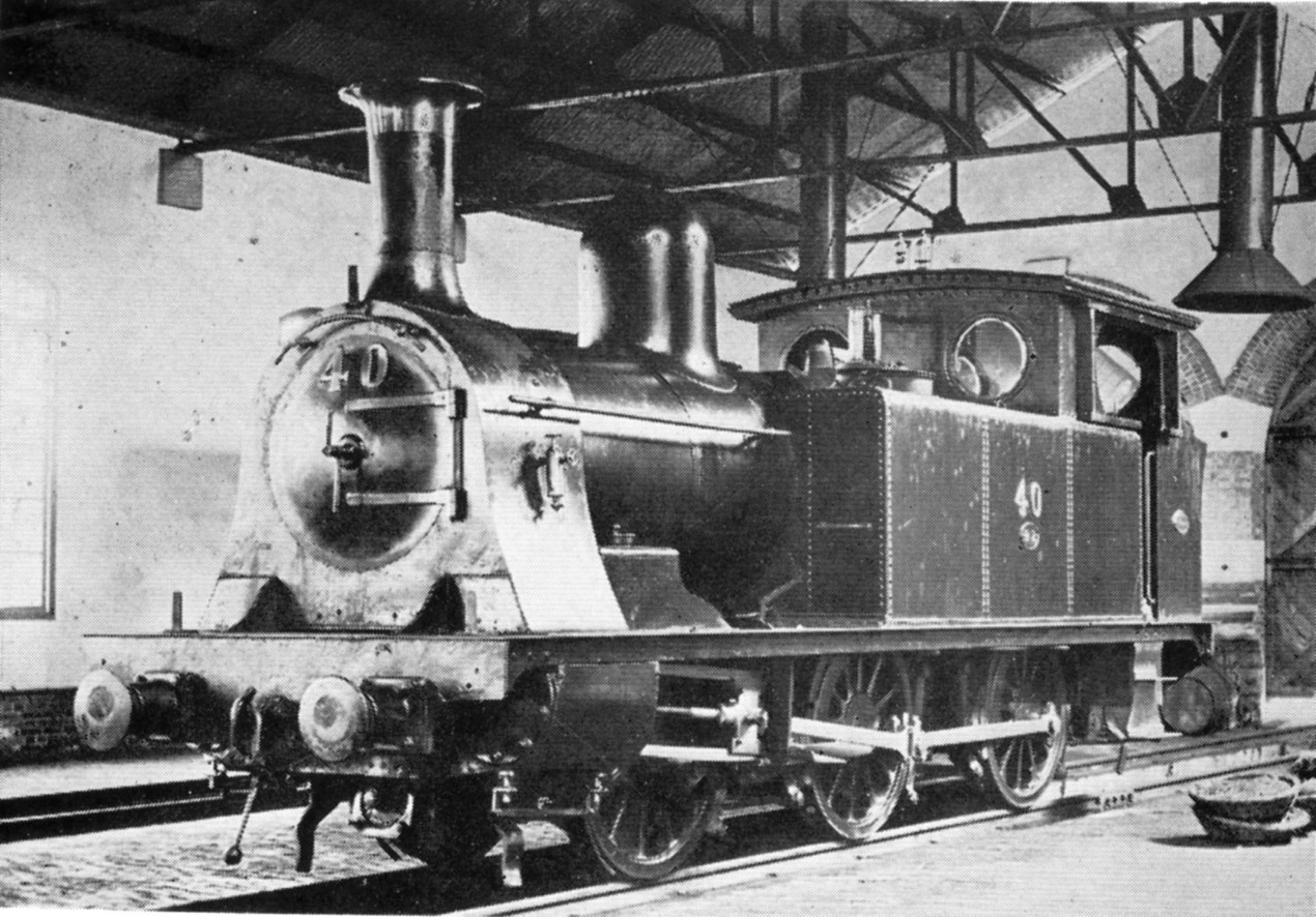 Japan Government Railway type 1800 steam locomotive